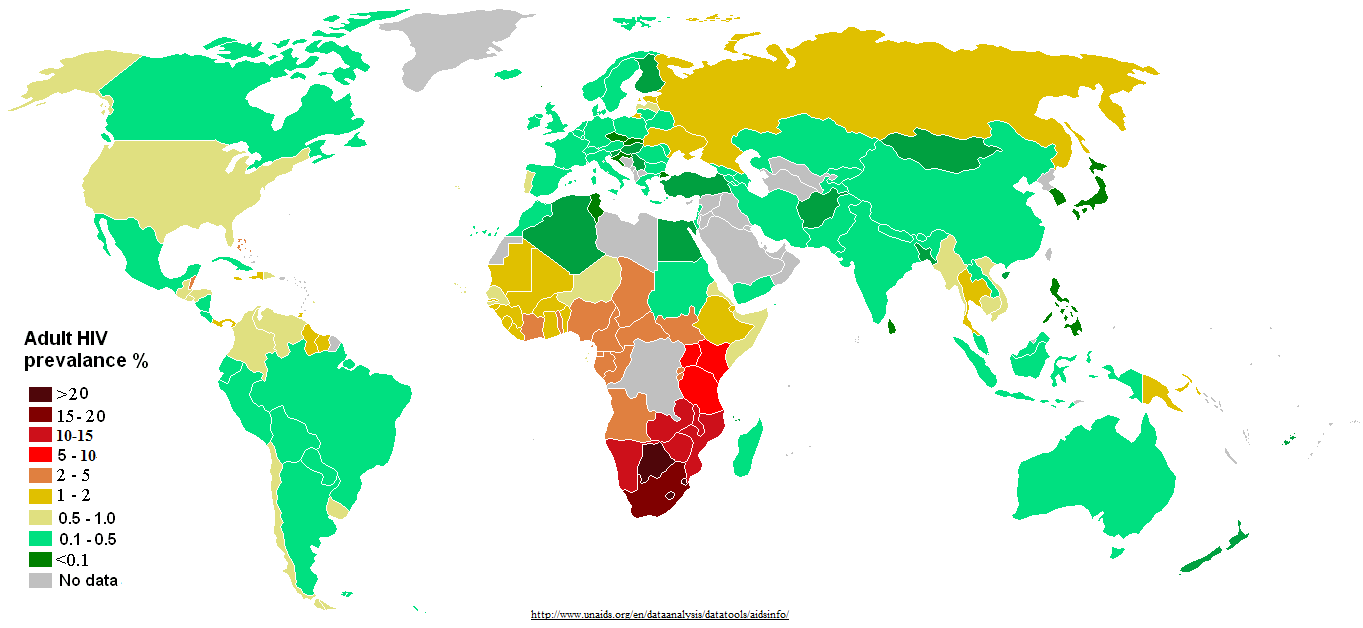 Estimated HIV/AIDS prevalence among young adults (15-49) by country as of 2011.